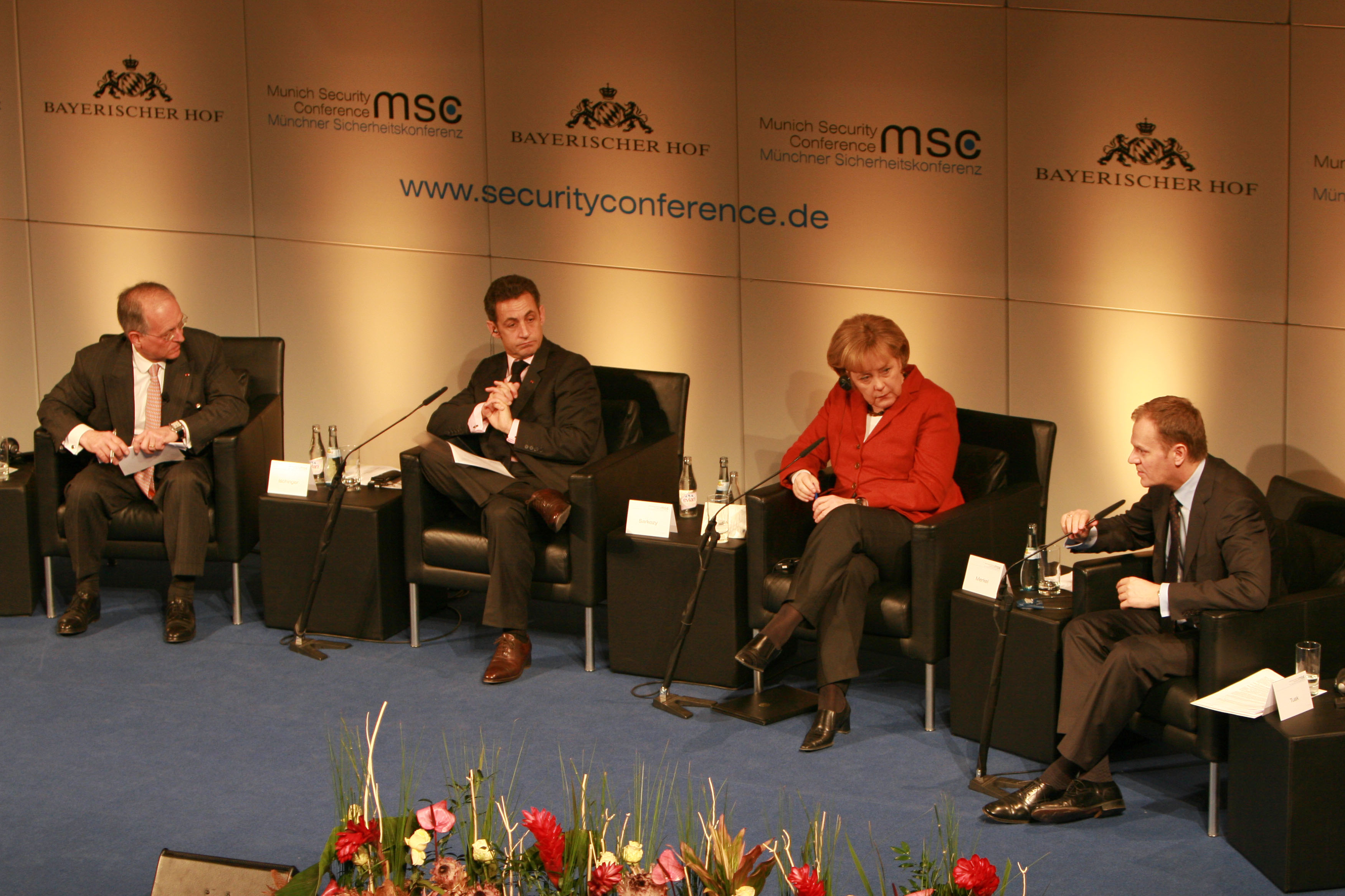 45th Munich Security Conference 2009: In the following diskussion (f le): Ambassador Wolfgang Ischinger, Nicolas Sarkozy, Dr. Angela Merkel, and Donald F. Tusk.